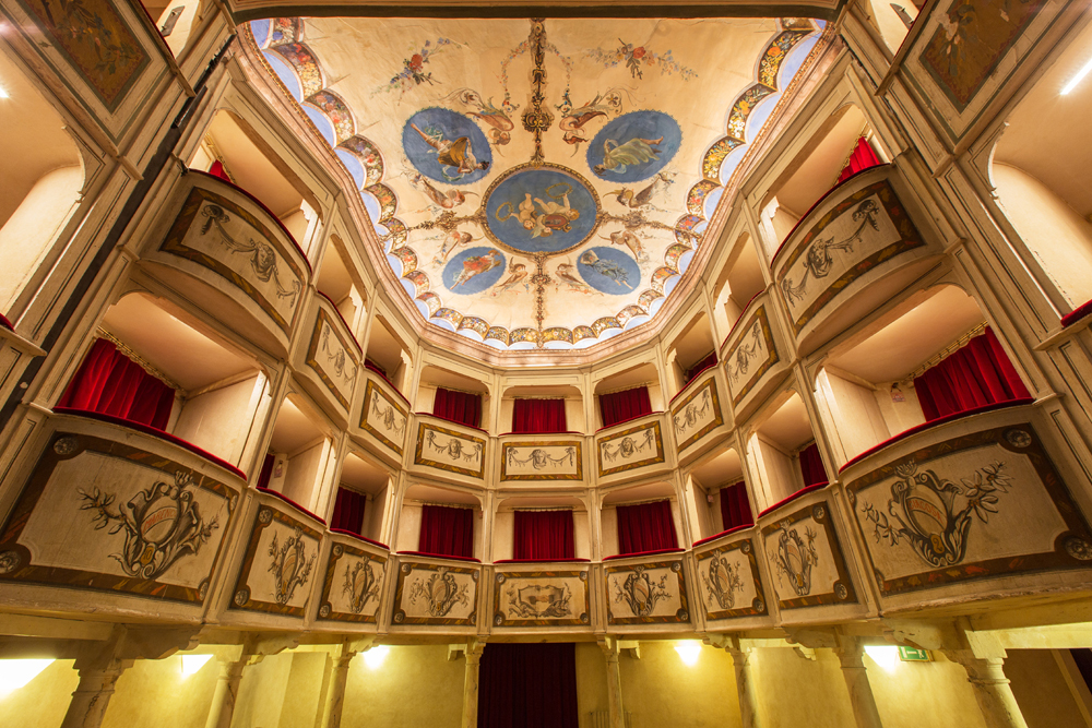 Teatro della Concordia in Monte Castello di Vibio (Italy): Boxes and parts of the ceiling fresco.